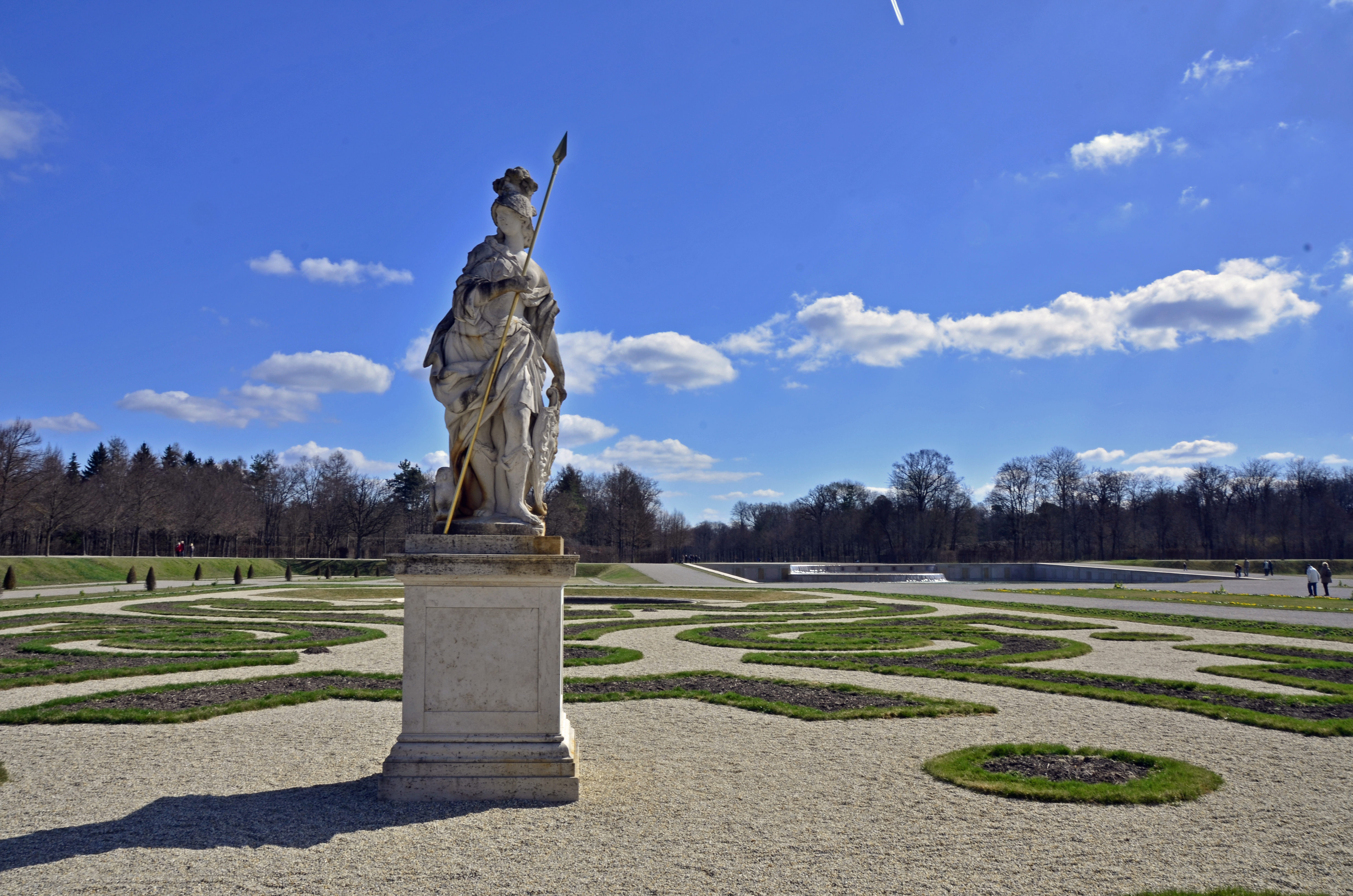 Schleissheim Castle - Statue in the Parc